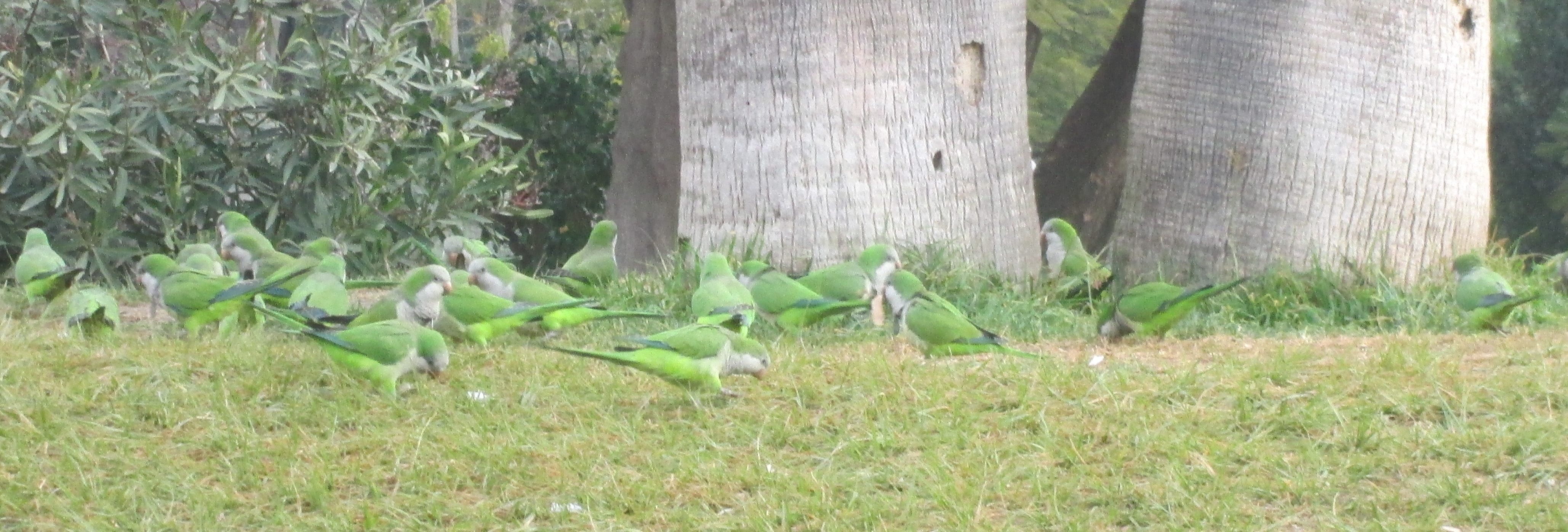 Monk parakeets at Ciuttadella Parc de Barcelona, Spain